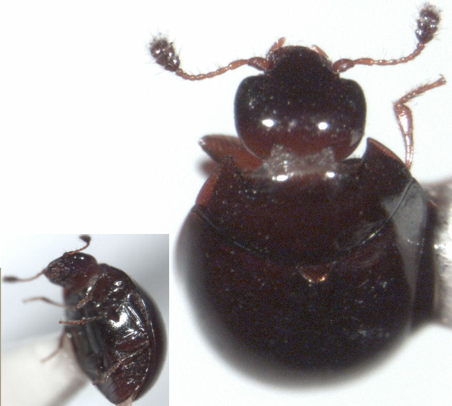 adult Cyclaxyra sp.